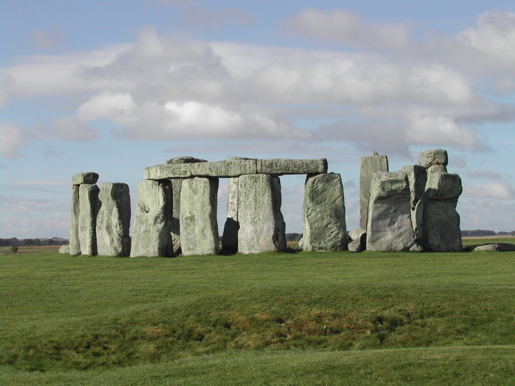 from Hasso Weber - Scotland motorcycle-tour in 2005 (date: 17.08.2005)